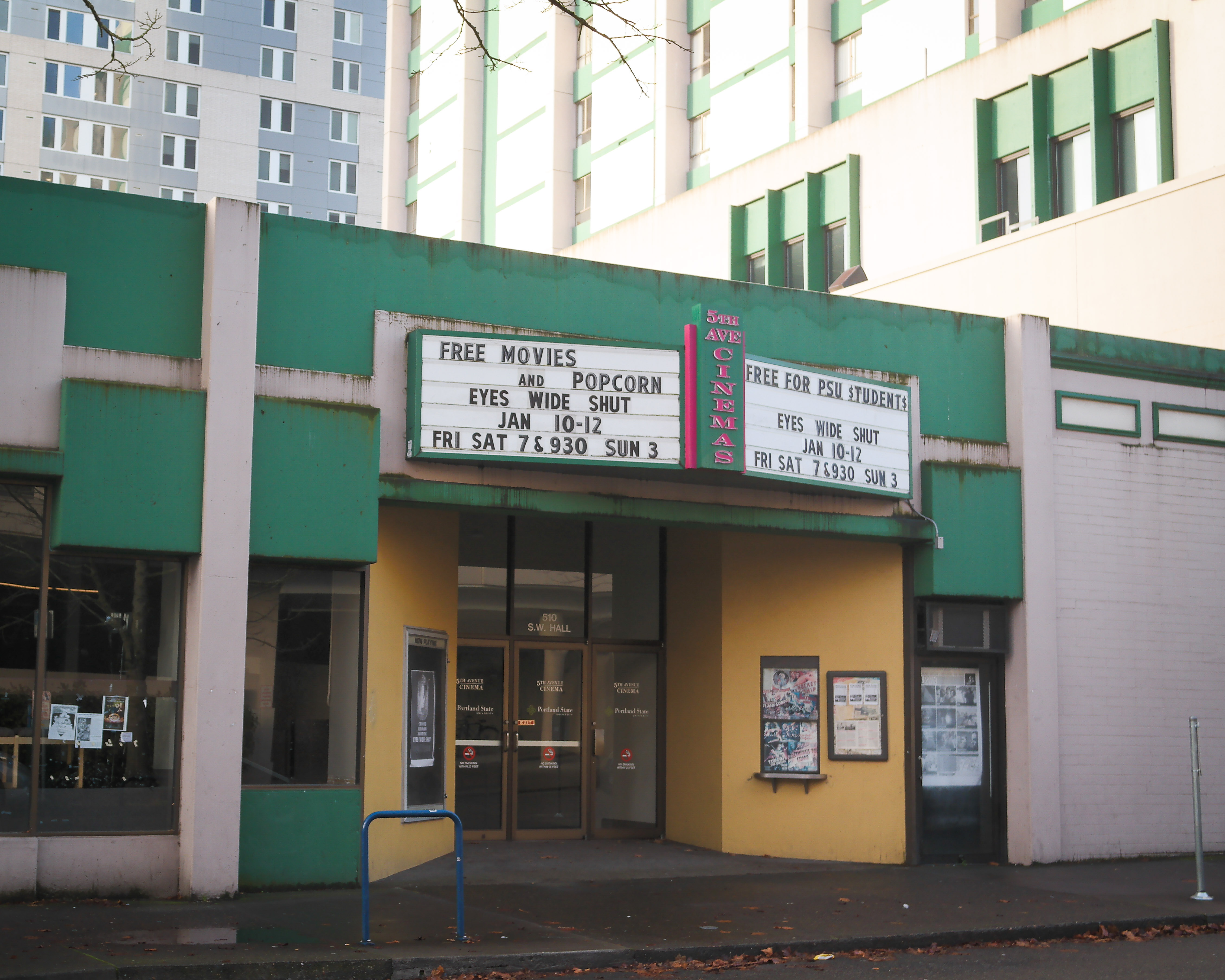 Outside the 5th Avenue Cinema at Portland State University